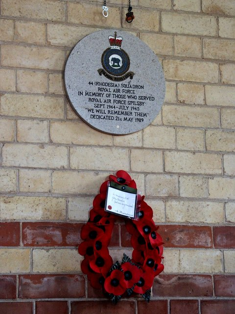 Interior of All Saints, Great Steeping. Memorial to those who served in 44 Squadron from RAF Spilsby during World War II.